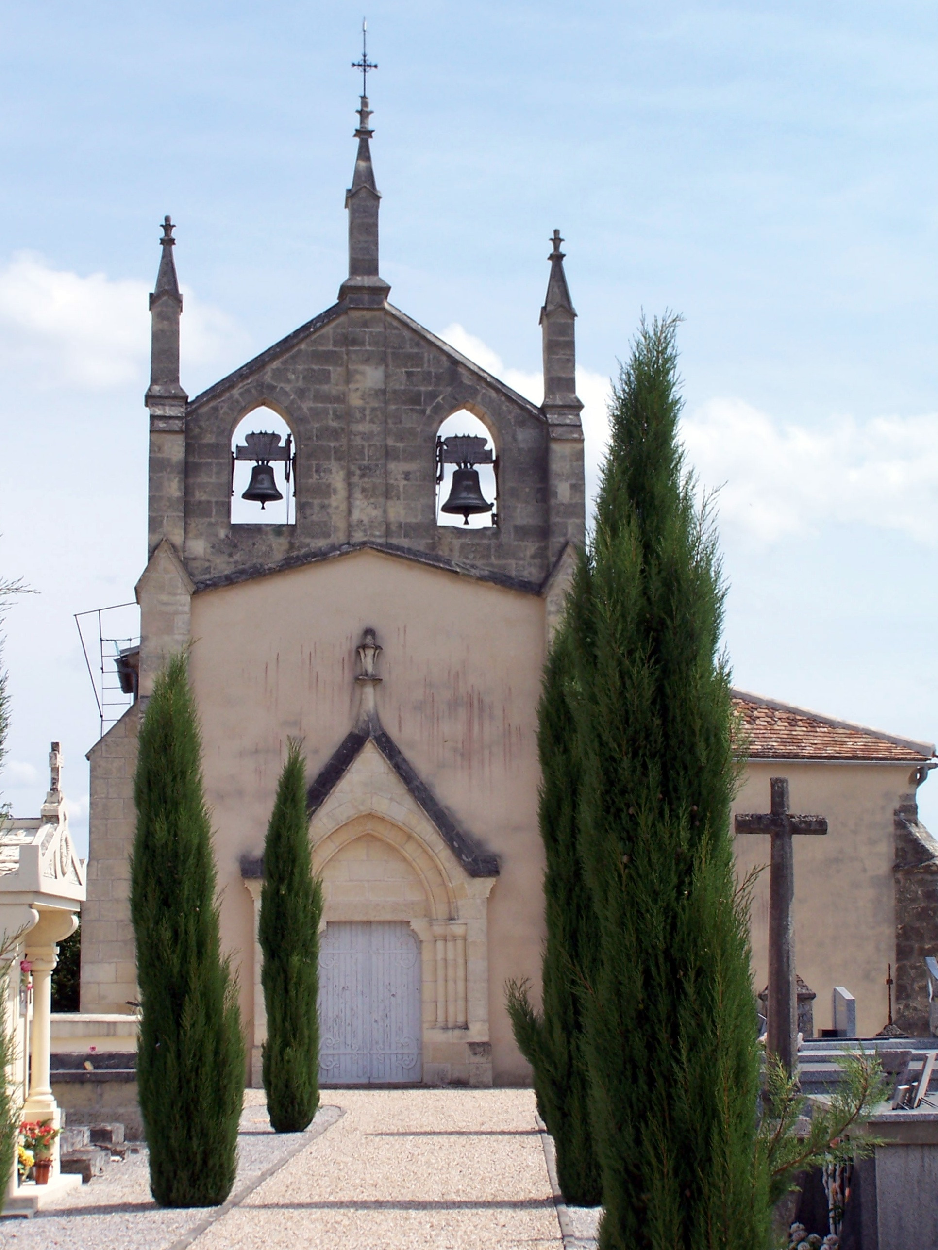 Church Saint-Pierre of Cazaugitat (Gironde, France)